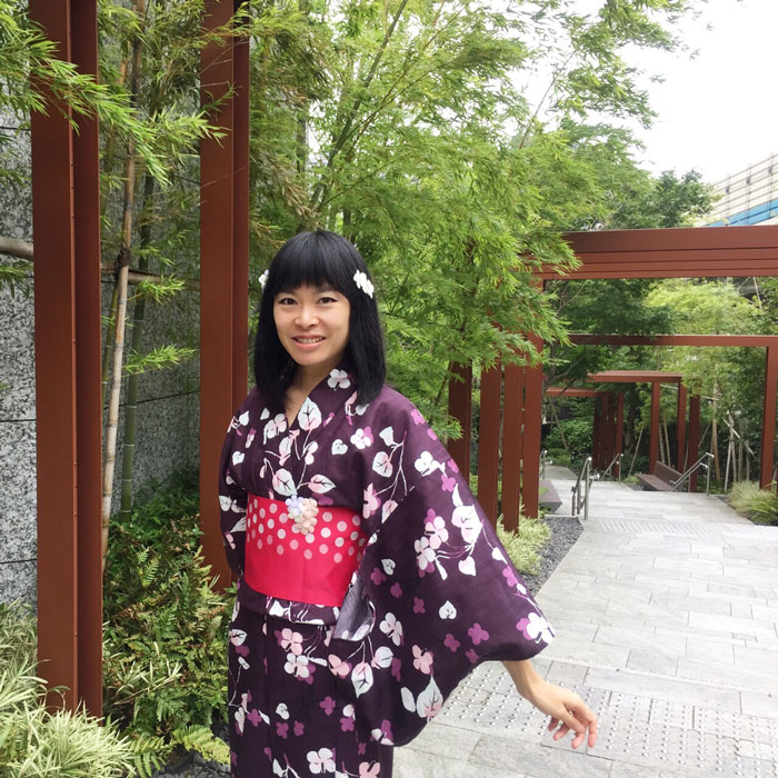 Photo Rosalys 2015